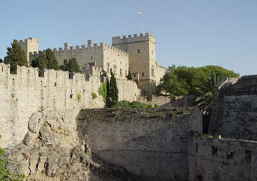 Battlements of the Knights castle at Rhodes.